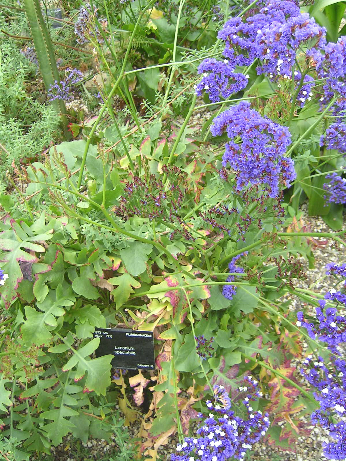 Sea lavender, Limonium spectabile at Kew from the Canary Islands